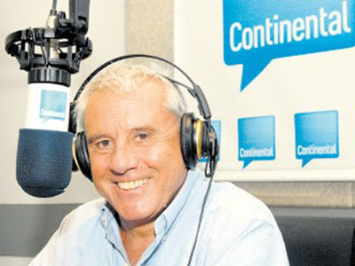 Fernando Bravo at "Radio Continental"